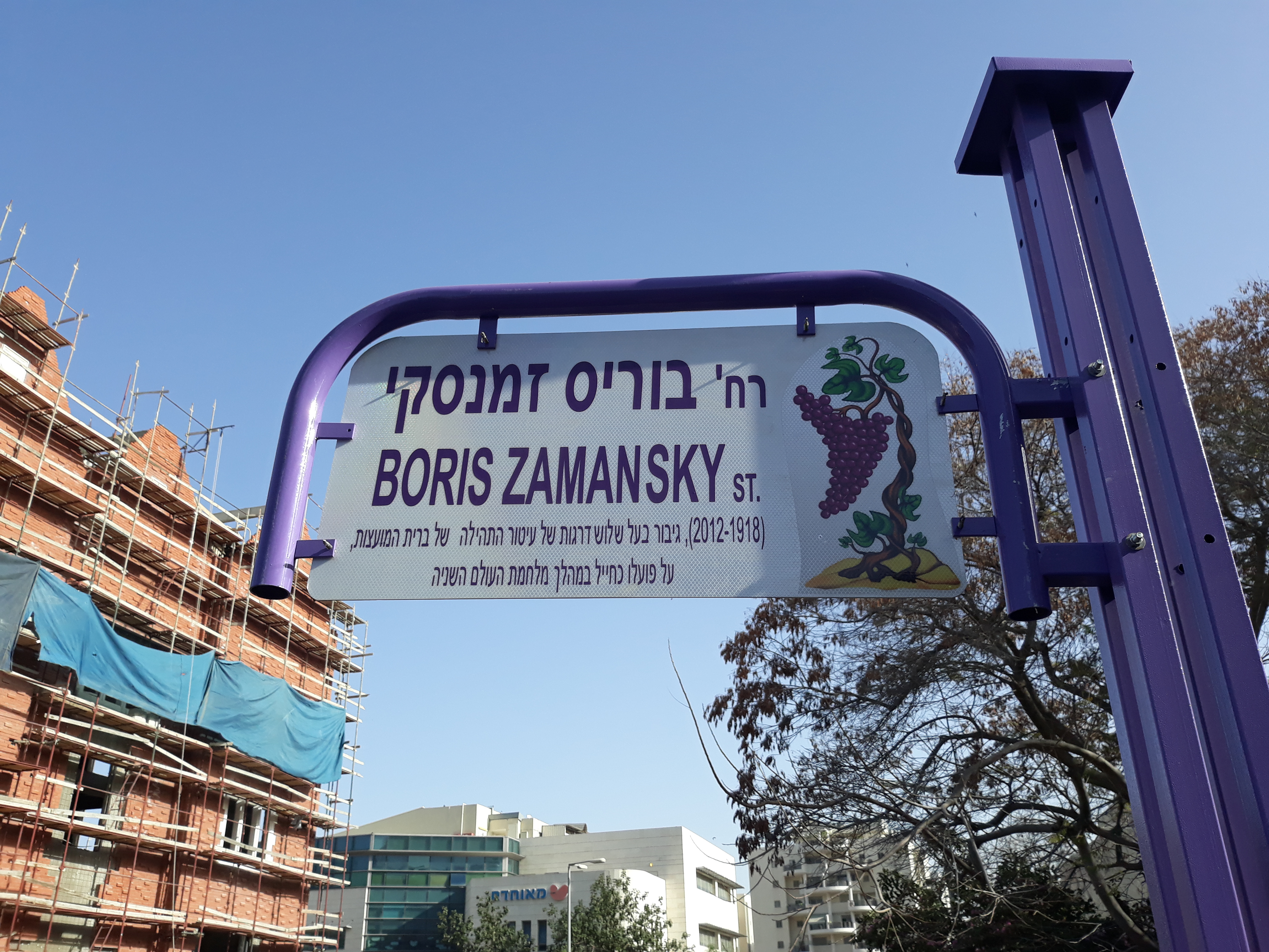 Street sign in Rishon LeZion